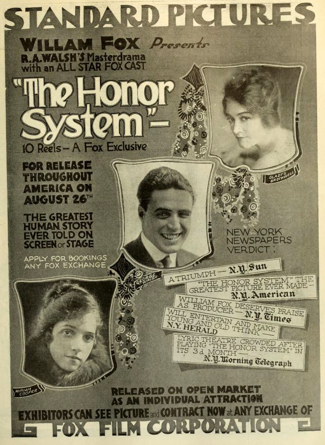 Advertisement in Moving Picture World, Aug 1917 for the American film The Honor System (1917).